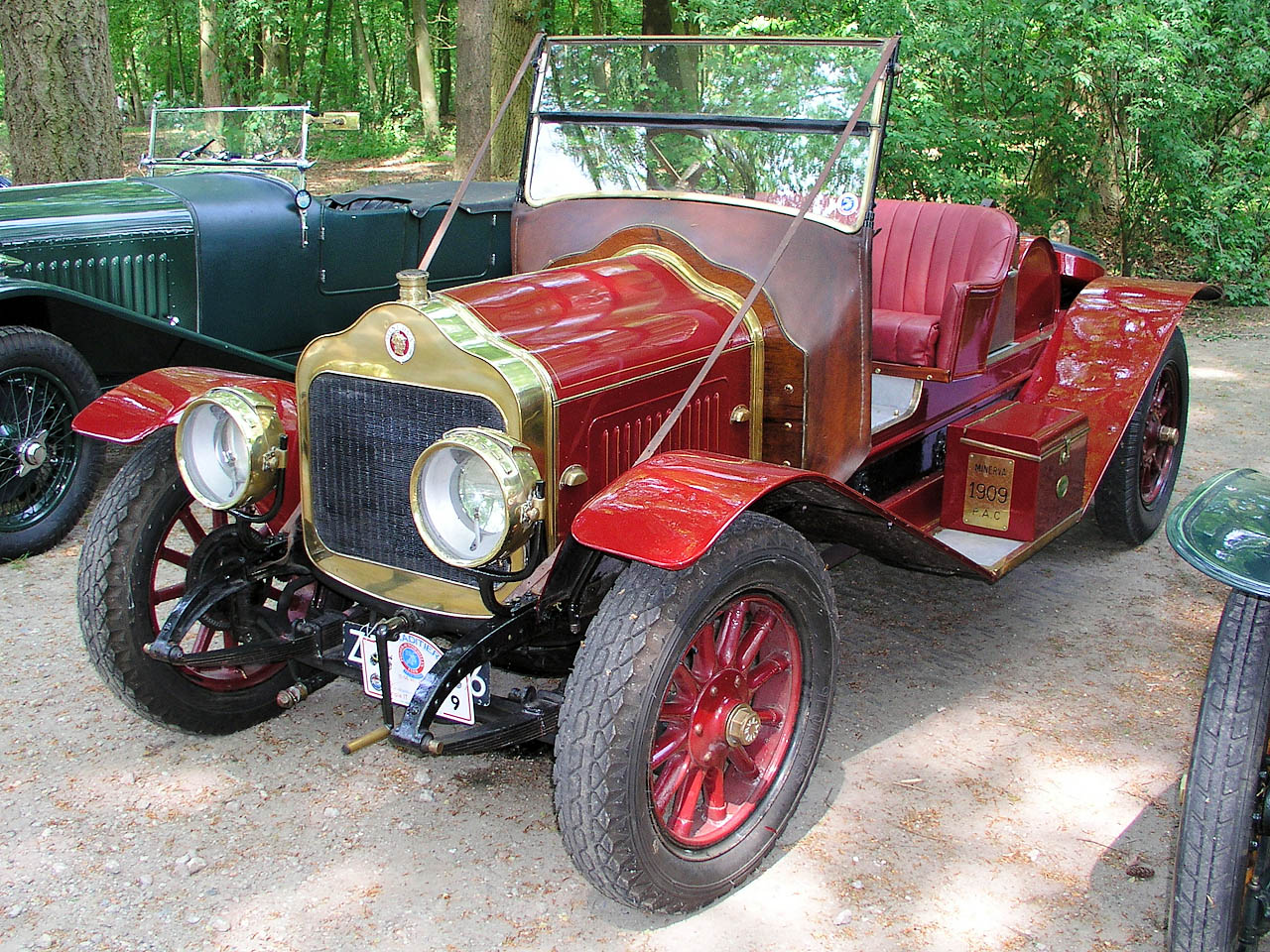 26 HP model powered by a 4084 cc 4-cylinder pair-cast engine with sleeve-valves, made in Belgium by Minerva Motors SA; front left-side view